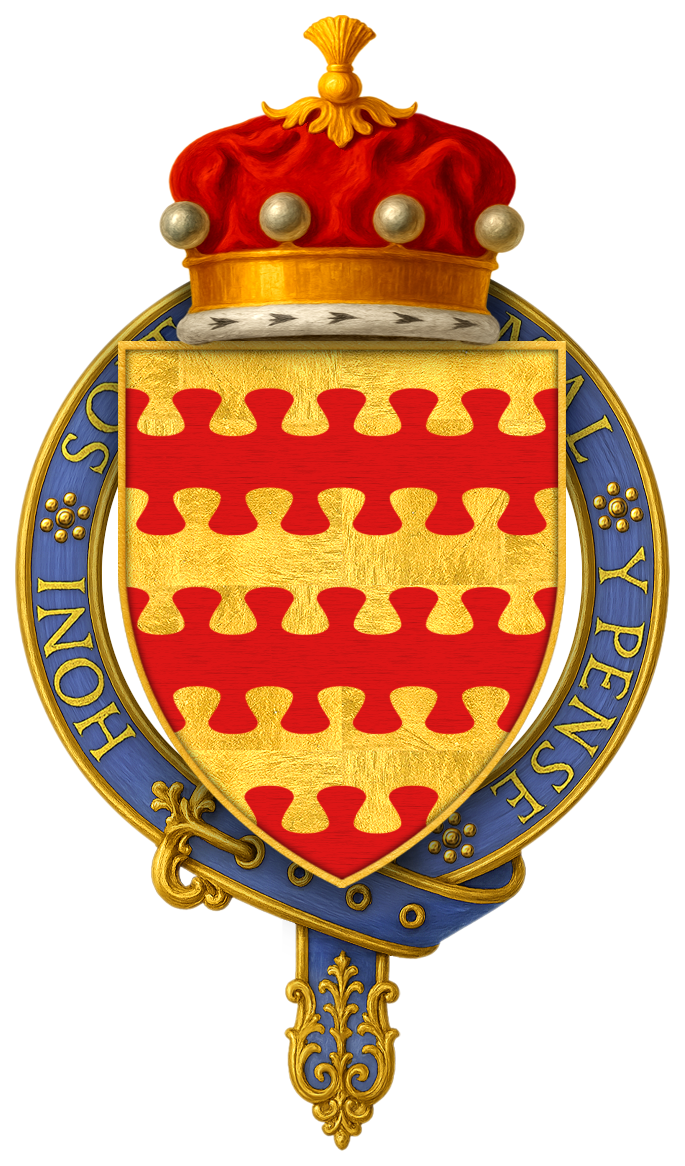 Coat of Arms of Sir John Lovel, 5th Baron Lovel, KG BURKE, Sir Bernard, The General Armory of England, Scotland, Ireland, and Wales: Comprising a Registry of Armorial Bearings from the Earliest to the Present Time, London: Harrison & sons, 1884. “Lovel (Baron Lovel, of Tichmarch [sic], and Viscount Lovel, attainted after the battle of Bosworth; William Lovel, fourth son of William de Perceval, surnamed Lupellus, &c., was ancester of Sir John Lovel, summonded to parliament 1299 to 1311). Barry nebulee of six or and gu.”